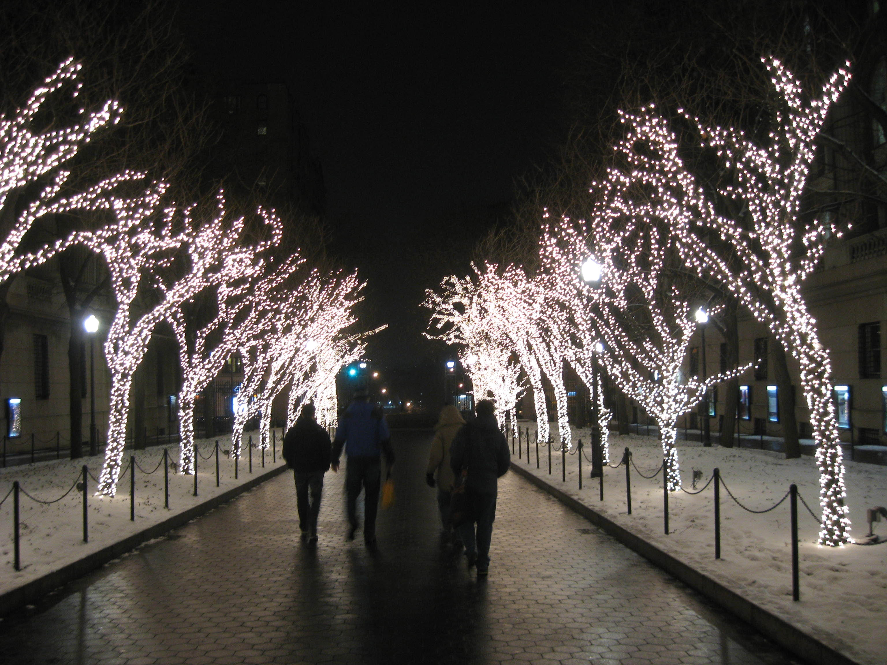 Wikimedia New York Chapter members walk westward on College Walk, between illuminated trees, towards Broadway and Greek dinner.